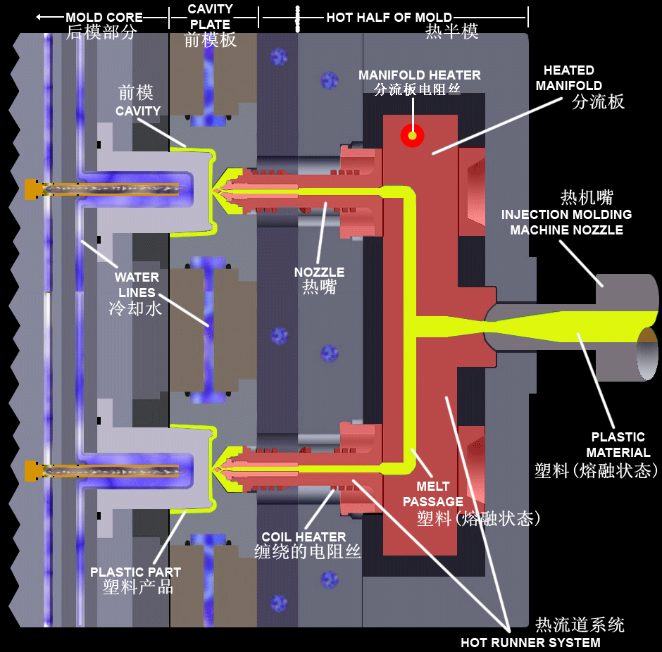 Translate words into Chines and change the last hot half plate, also add manifold heater